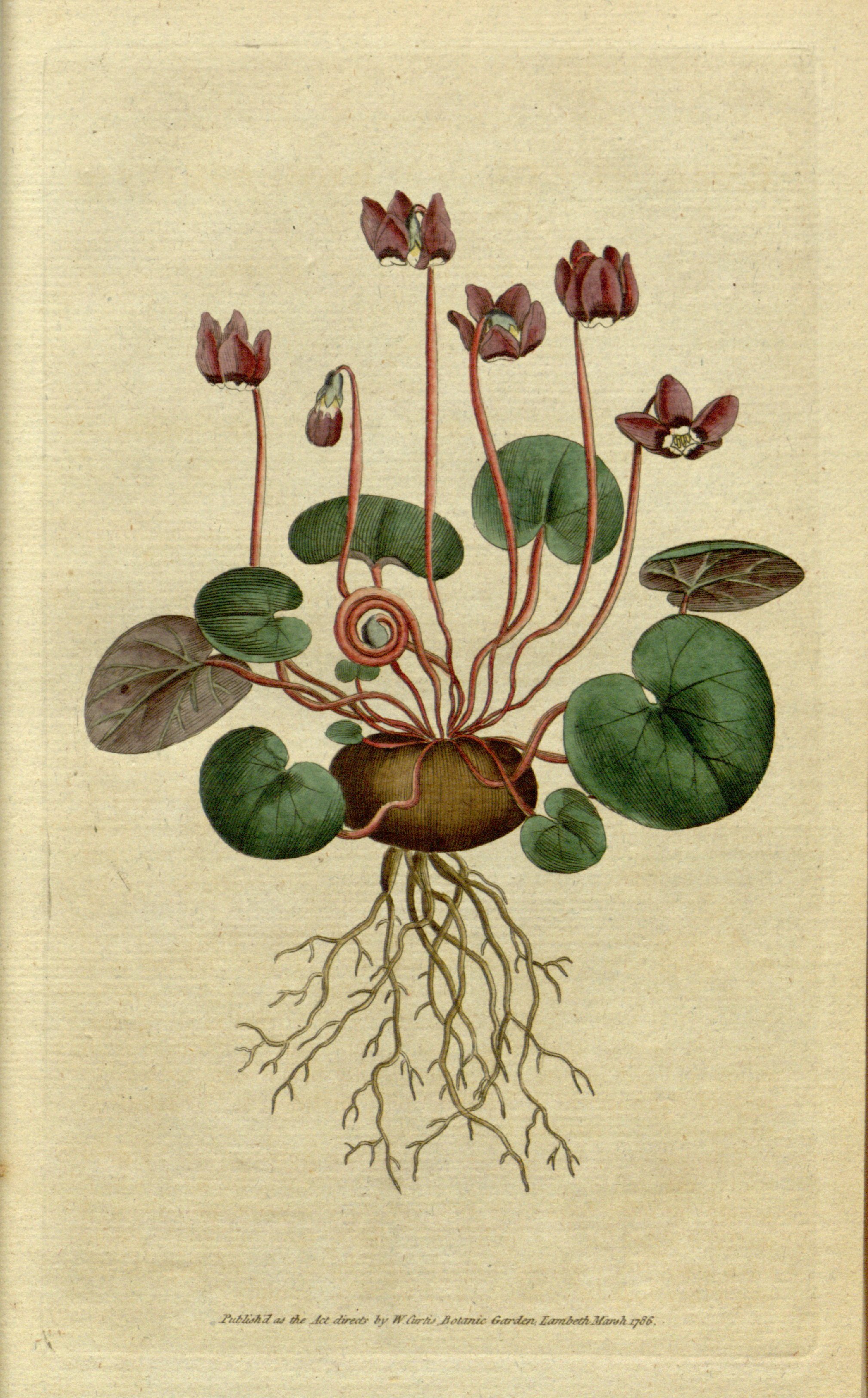 This is Plate 4 from The Botanical Magazine, Volume 1. Pentandria Monogynia (Cyclamen coum)